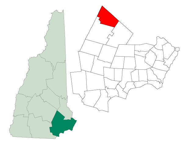 Map of a municipality in Rockingham County, New Hampshire